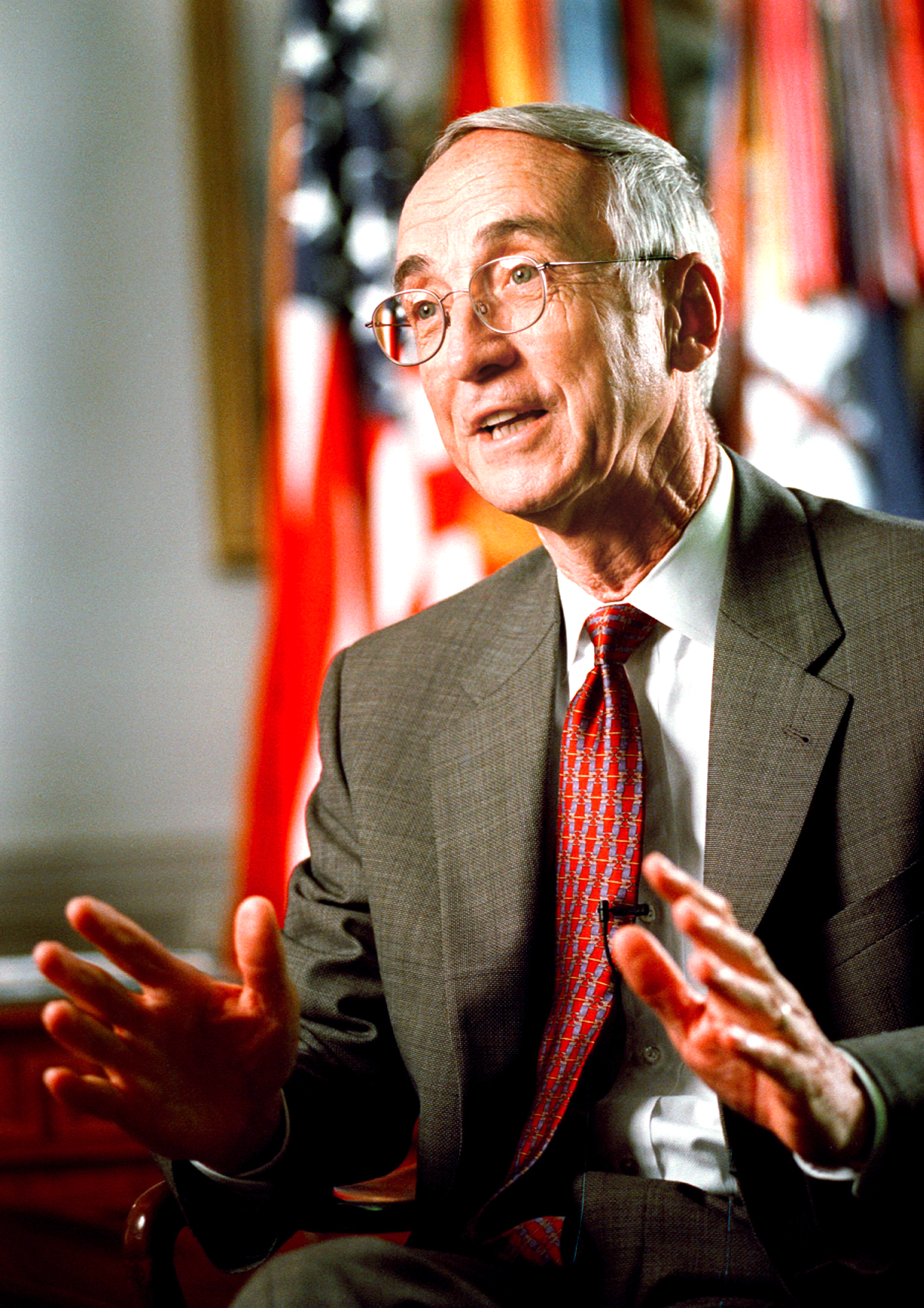 Mr. Gordon R. England officially became the 72nd Secretary of the Navy after taking the oath of office in the Pentagon following his Senate confirmation. U.S. Navy photo. (RELEASED)